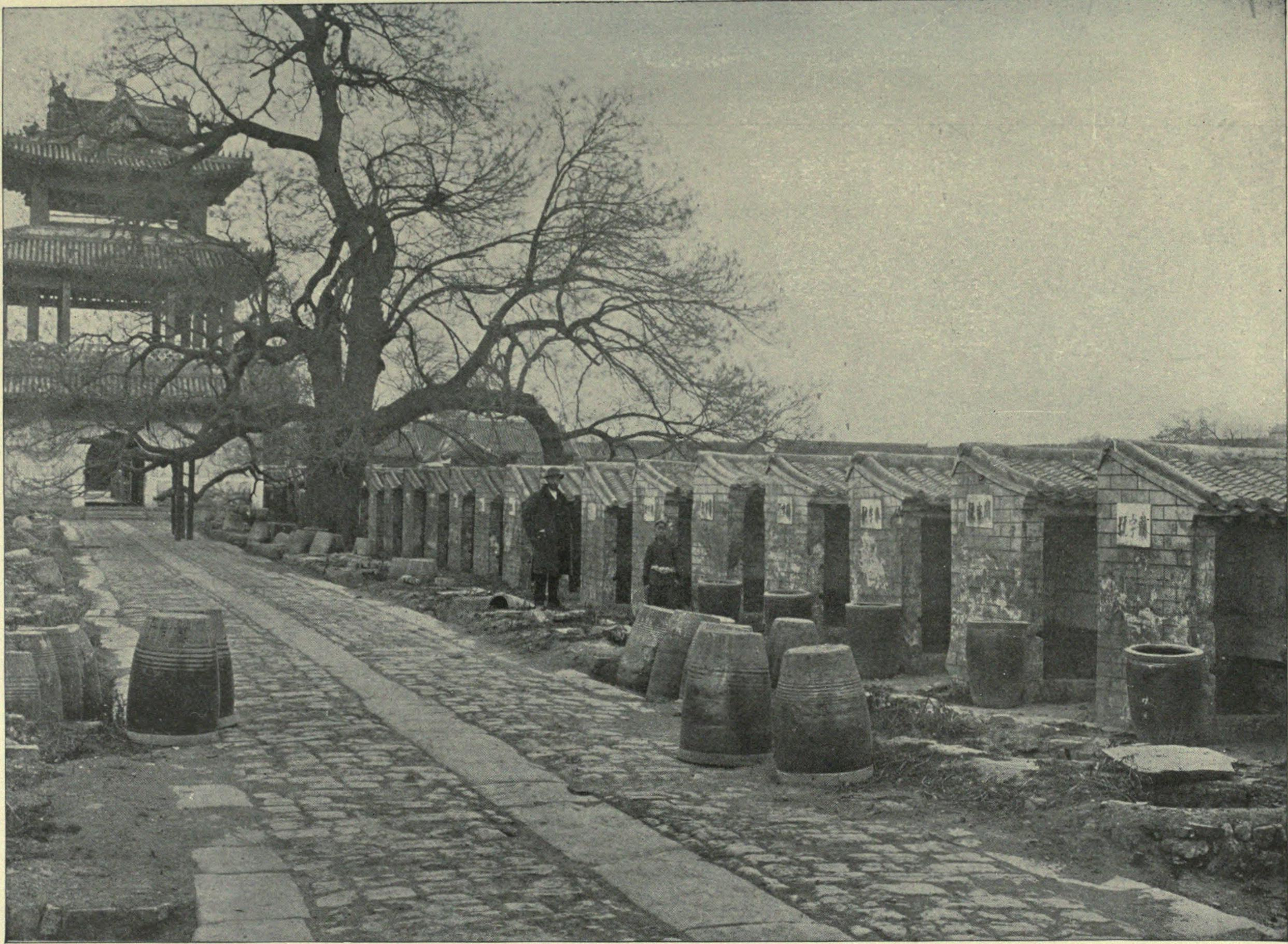 Examination hall in Peking, China.